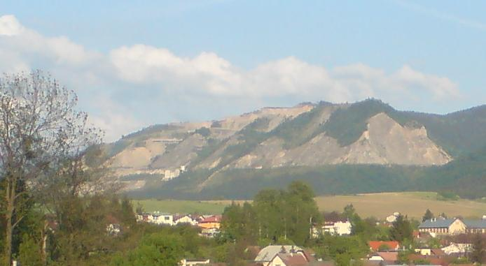 Polom od Višňového